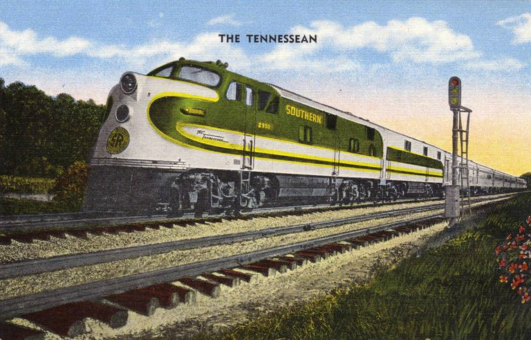 Postcard depiction of the Southern Railways' train "The Tennessean".